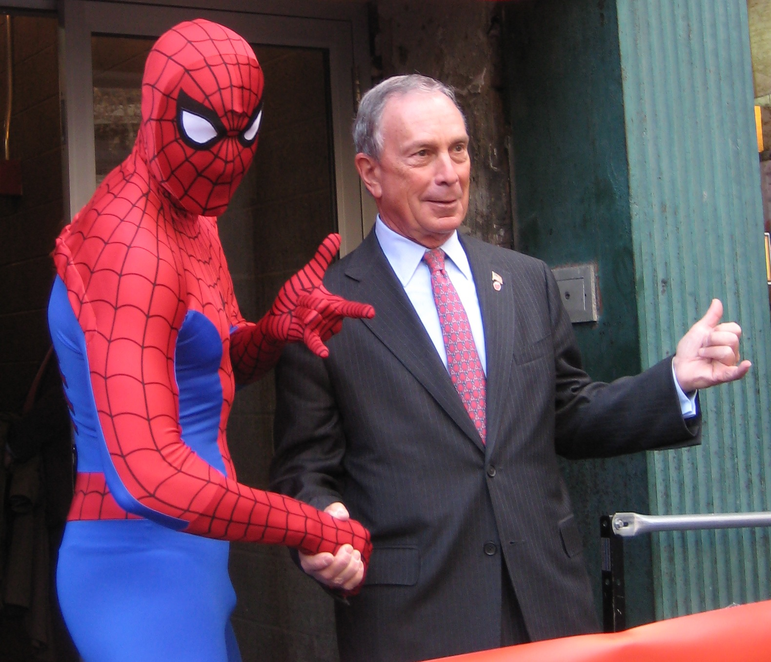 New York City Mayor Mike Bloomberg with Spider-Man at Midtown Comics Downtown.